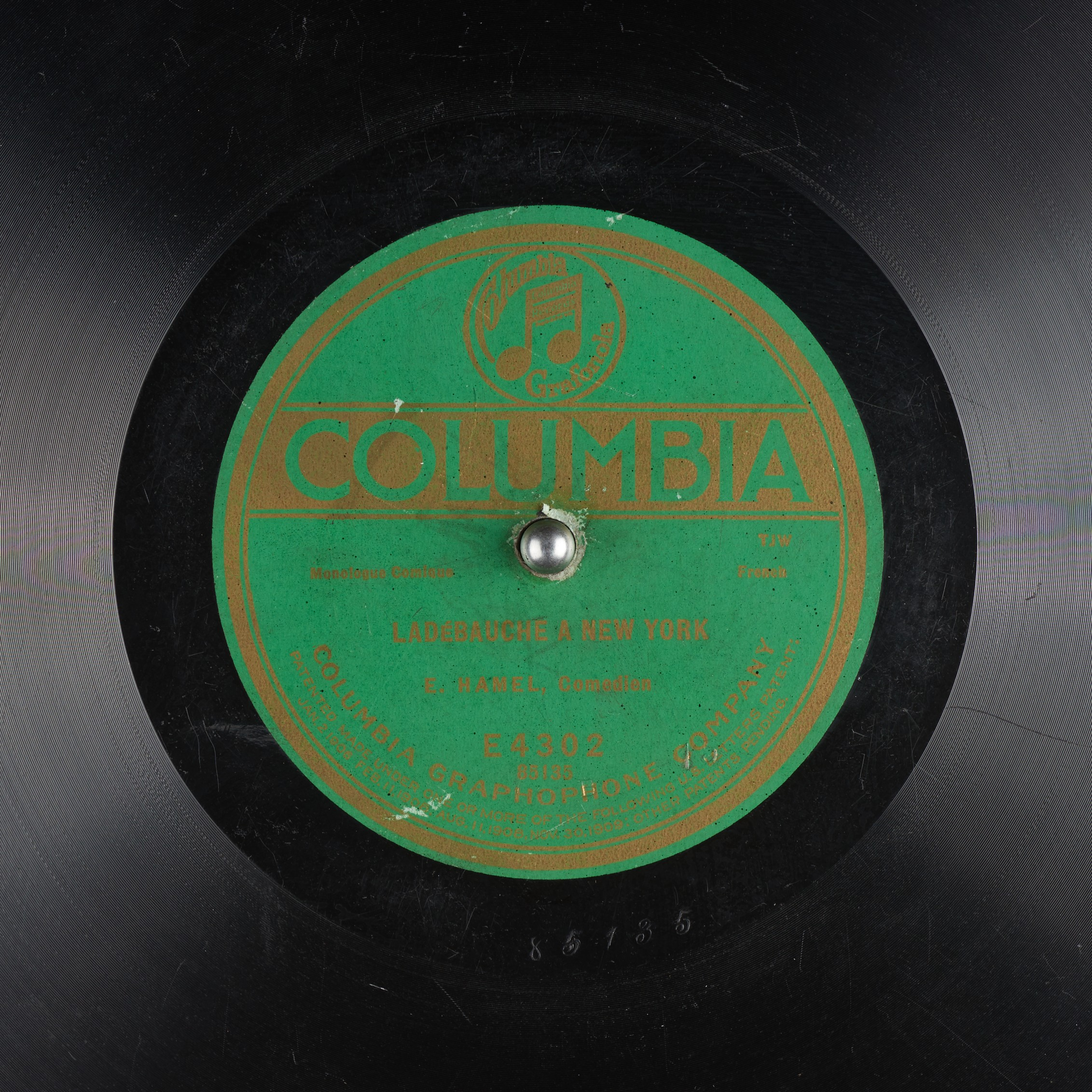 Columbia Label, "Ladébauche à New York", French canadian comic monologue performed by Elzéar Hamel, 1919. Columbia, catalogue no E4302